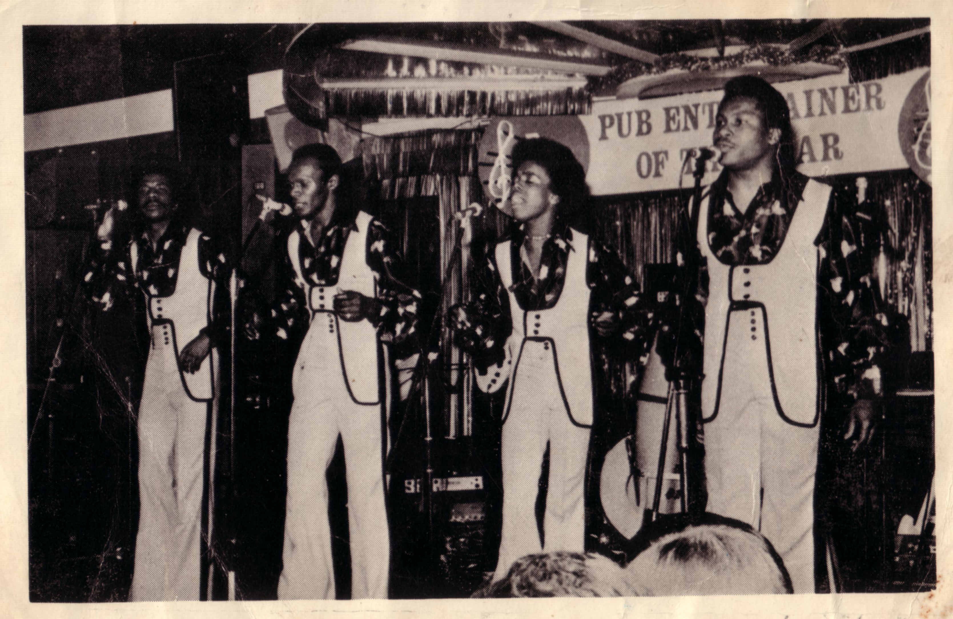 Photo of Sweet Sensation Original Founding Members in an early Competition - Pub Entertainer of the Year